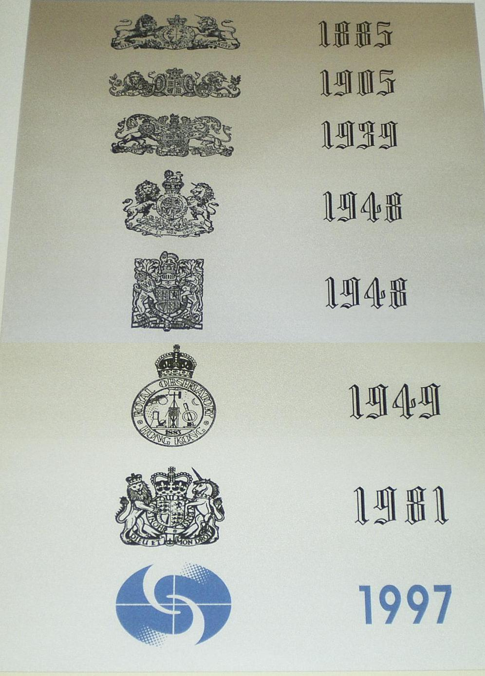 HK Observatory Logo